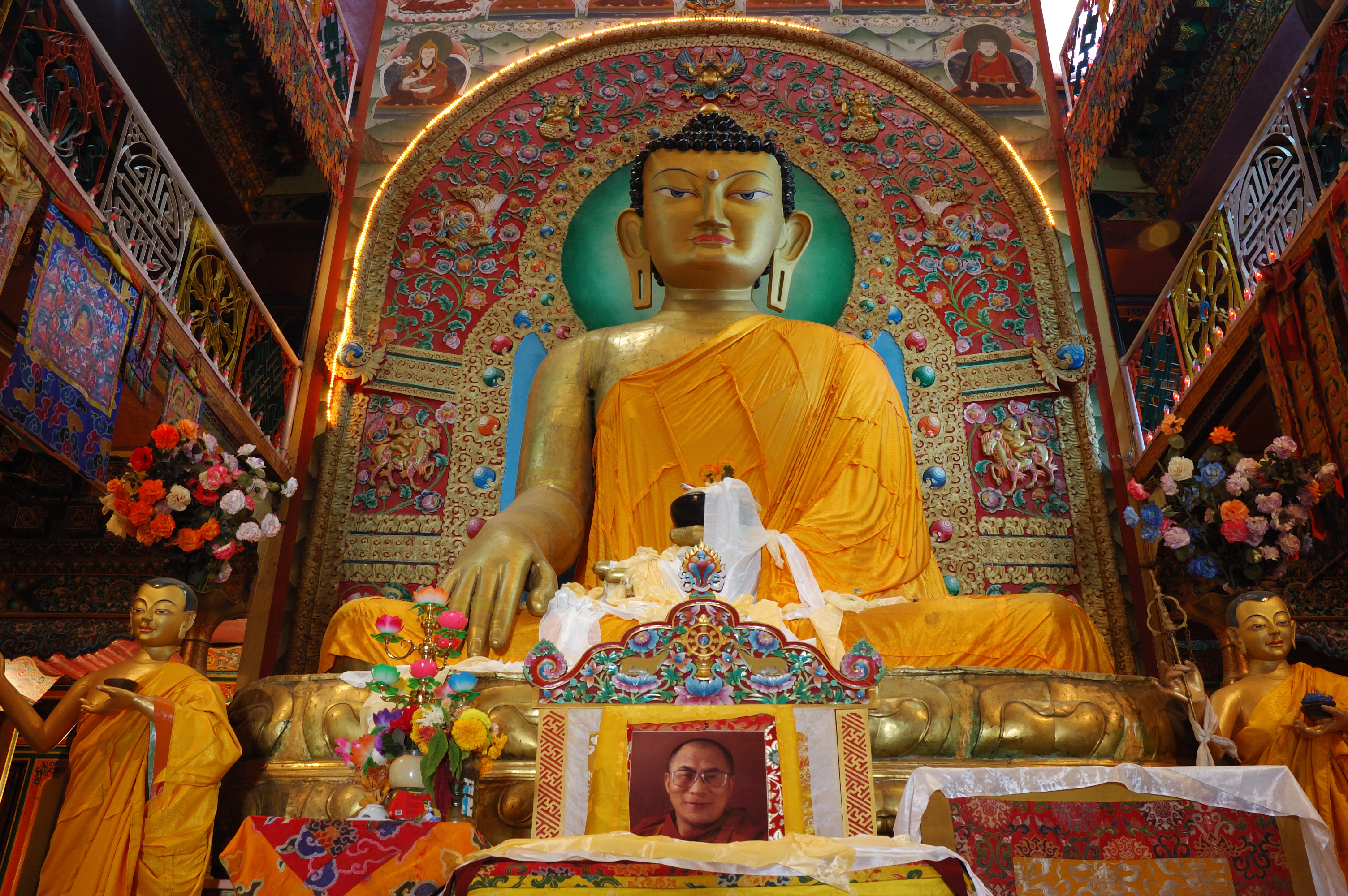 During his life time the historical buddha specifically requested his likeness not be recorded in idolatrous form . This is a photograph I took of the statue of the Tibetan deity/archetype Sakyamuni Buddha in the Tawang Gompa in Arunachal Pradesh, India. It is a 8 metre gilded statue, the most important feature of the Gompa. The Sakyamuni Buddha was the earliest form of the Buddha to be worshipped in India. This form shows the Buddha in the moment he reached enlightenment, as depicted by the "ground-touching" position.